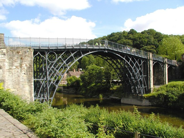 The Ironbridge. The Ironbridge, Ironbridge in Shropshire